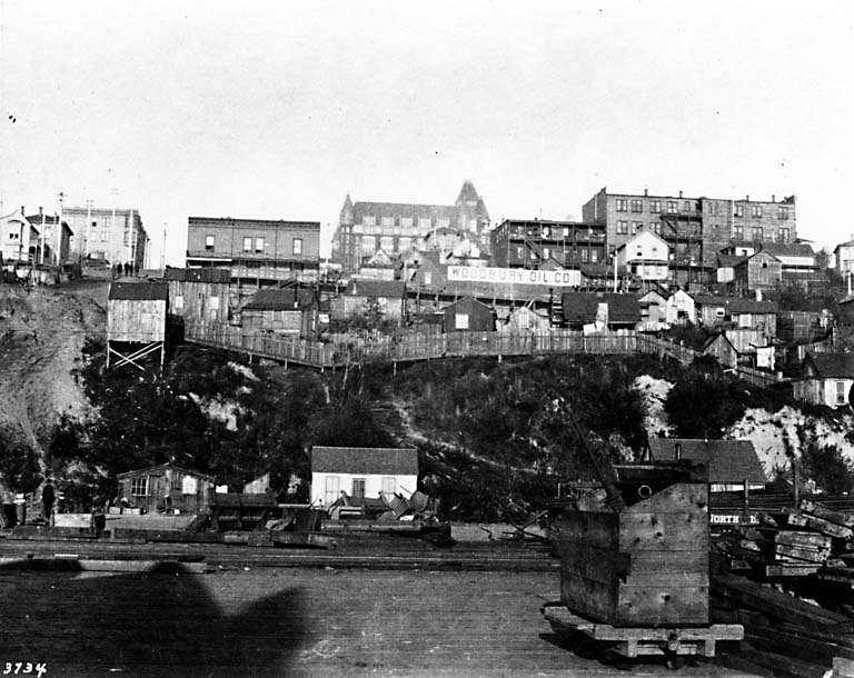 author unk, date n.d., c. 1891-1906; source: Seattle Collection, UW Digital; descr: View E from Elliott Bay near Pike St. Original title: "Seattle, looking east from the waterfront in the vicinity of Pike St., n.d." "Pike Street" is certainly not accurate, given the location of the Washington Hotel, visible at top center. This is looking east from the Elliott Bay waterfront between Stewart and Virginia Streets. The dirt track rising at left is part of Stewart Street. The first Washington Hotel (1891-1906, center, background) sits atop the small, steep Denny Hill, regraded in 1906-1907. This is taken from somewhere near Railroad Avenue, the present-day Alaskan Way. Physical description: Photographic print, B87C, condition good.